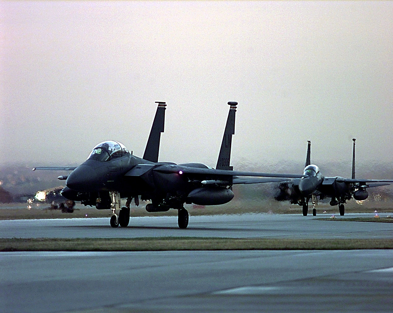 Two U.S. Air Force F-15E Strike Eagles taxi to the ramp at Aviano Air Base, Italy, after completing a mission in support of NATO Operation Allied Force on March 28, 1999. Operation Allied Force is the air operation against targets in the Federal Republic of Yugoslavia. The Strike Eagles are from the 494th Fighter Squadron, RAF Lakenheath, United Kingdom.